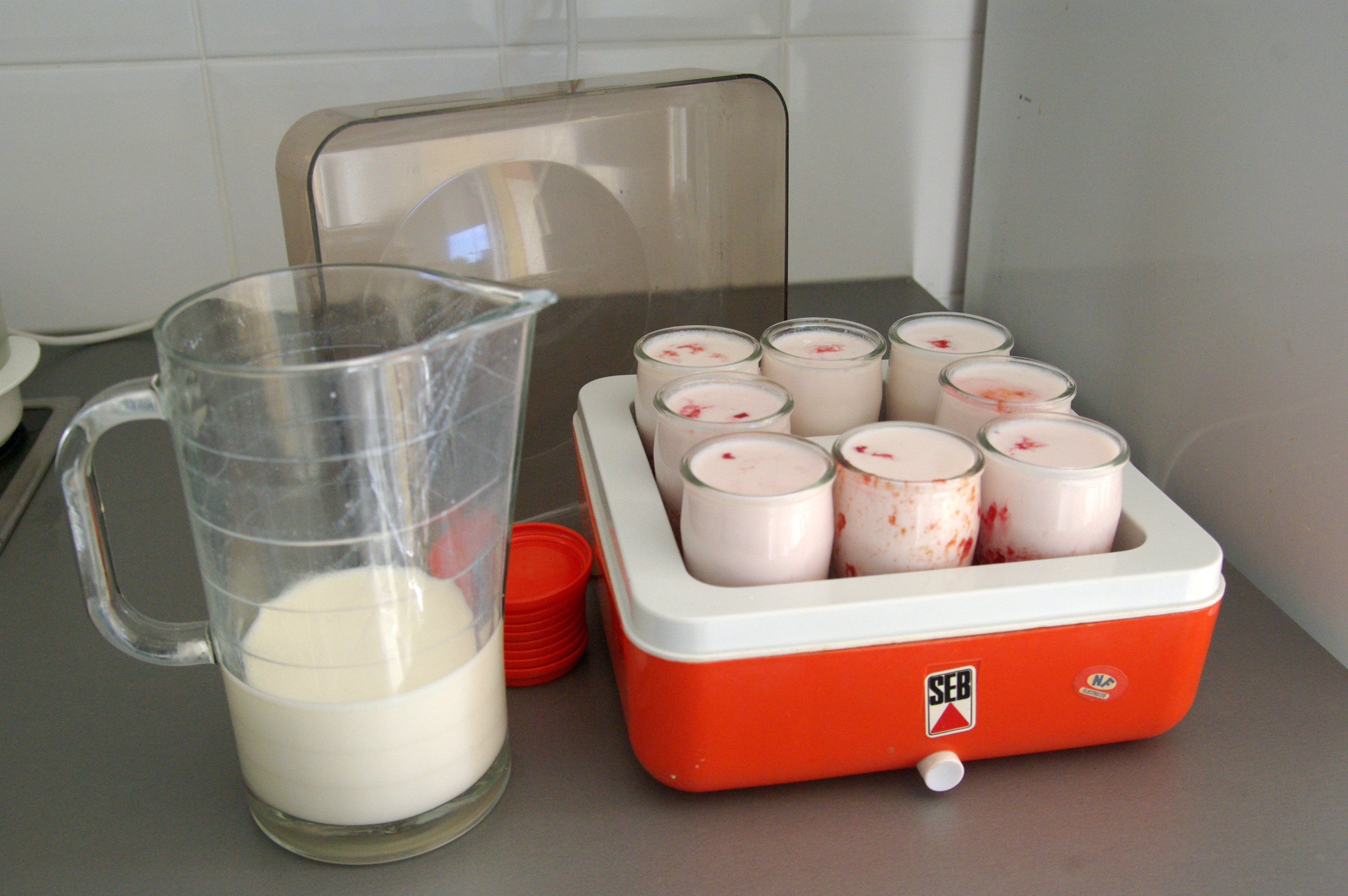 A Yoghurt machine from brand SEB